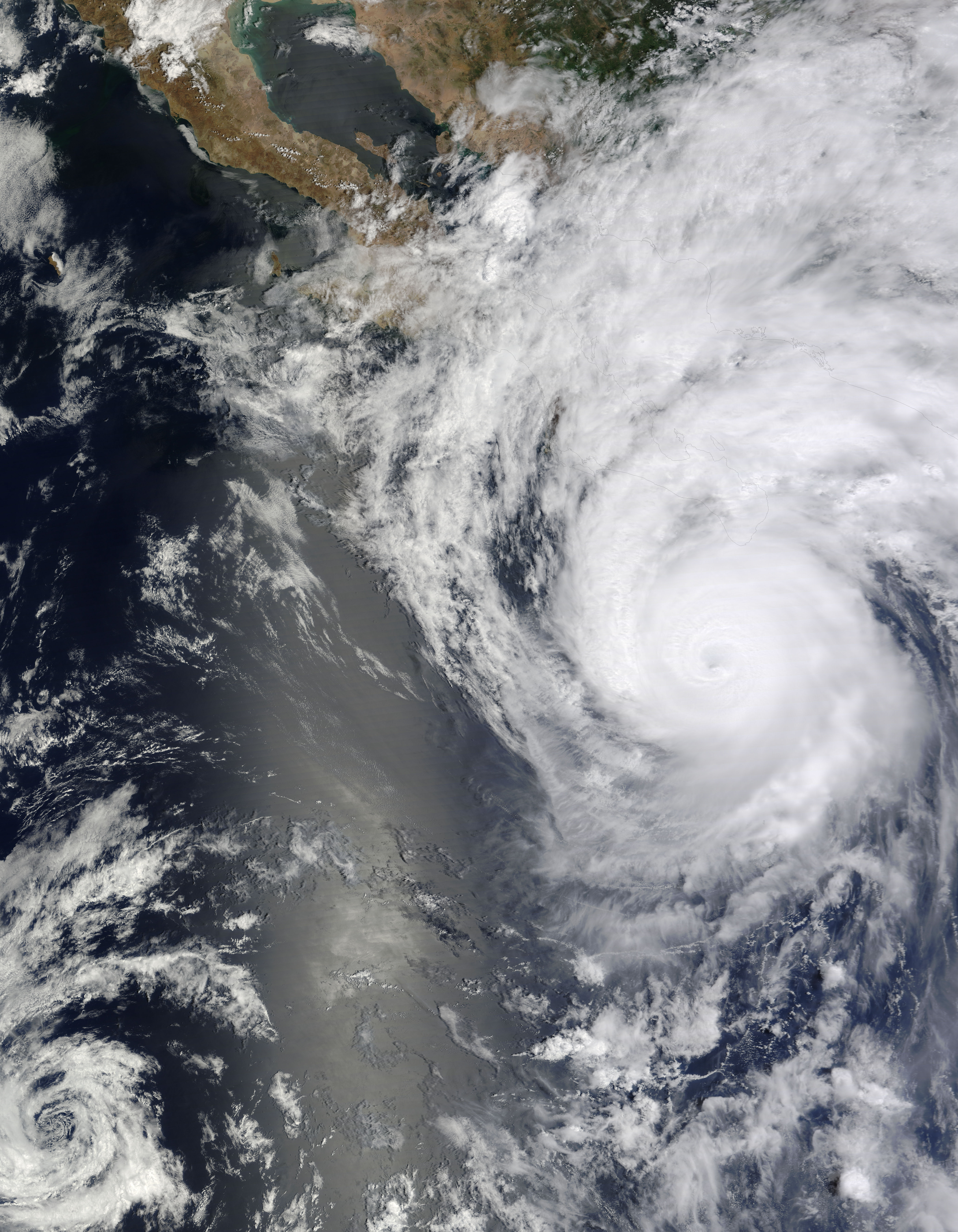 Hurricane Jimena had weakened slightly, becoming a Category 4 Hurricane just before the Moderate Resolution Imaging Spectroradiometer (MODIS) on NASA’s Terra satellite captured this image at 11:35 a.m. Pacific Daylight Time on September 1, 2009. The powerful storm has well-defined bands of clouds that circle a distinctive eye in this photo-like image. The outer bands of the storm were already over the southern tip of Baja California. The National Hurricane Center expected Jimena to move north along the peninsula before coming ashore on September 2 or September 3. At the time this image was taken, Jimena had winds of 215 kilometers per hour (135 miles per hour) with stronger gusts, said the National Hurricane Center. The storm was expected to bring heavy rain—up to 15 inches in some locations—a dangerous storm surge, and battering waves to Baja California.